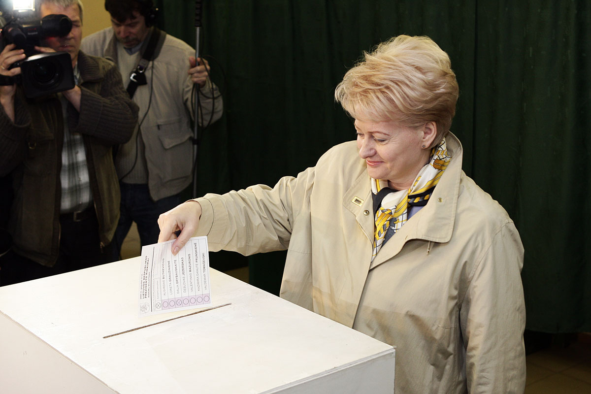 Presidential election of Lithuania, 2009-05-17. Dalia Grybauskaitė in voting station